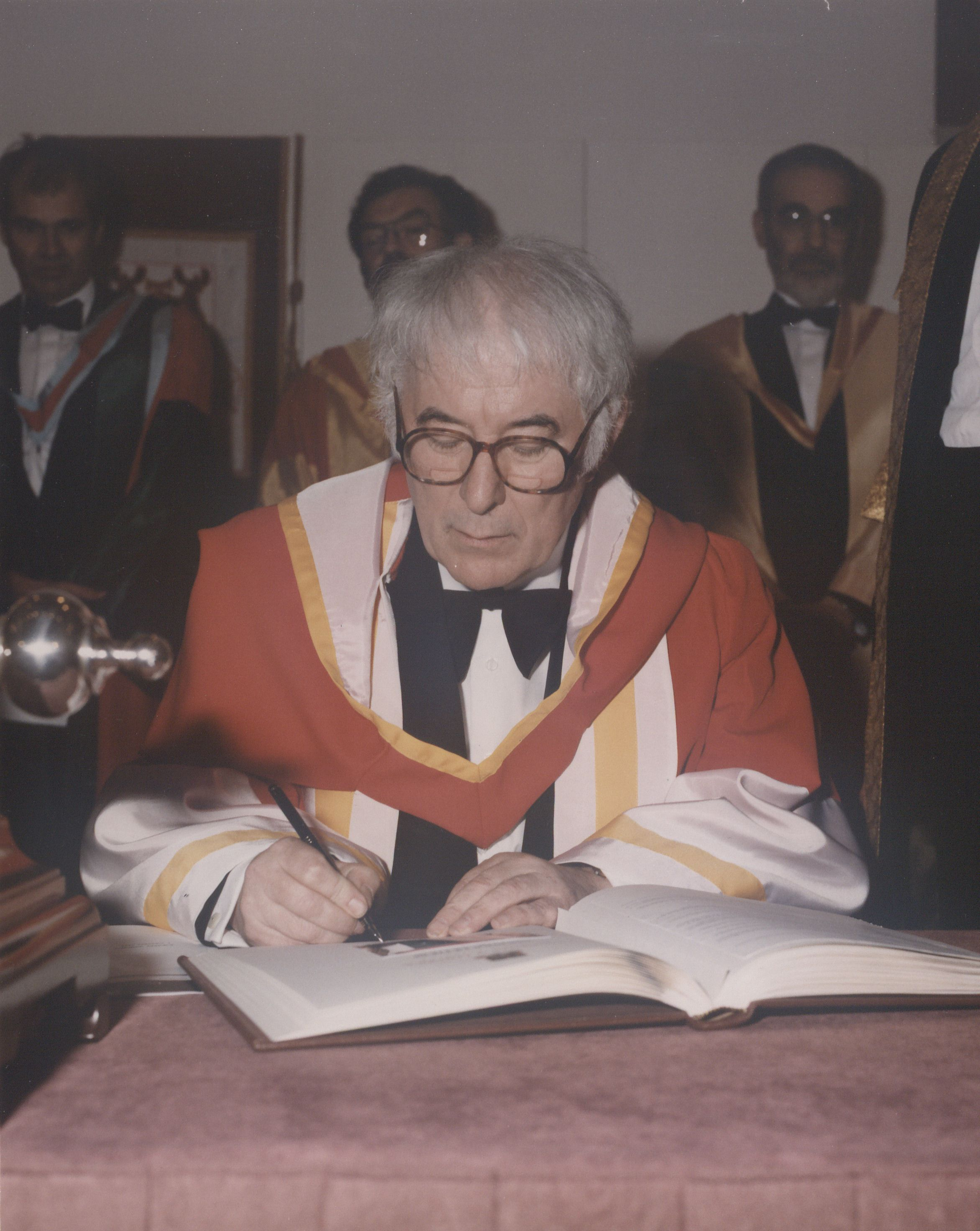 Seamus Heaney Honorary Conferring (3)